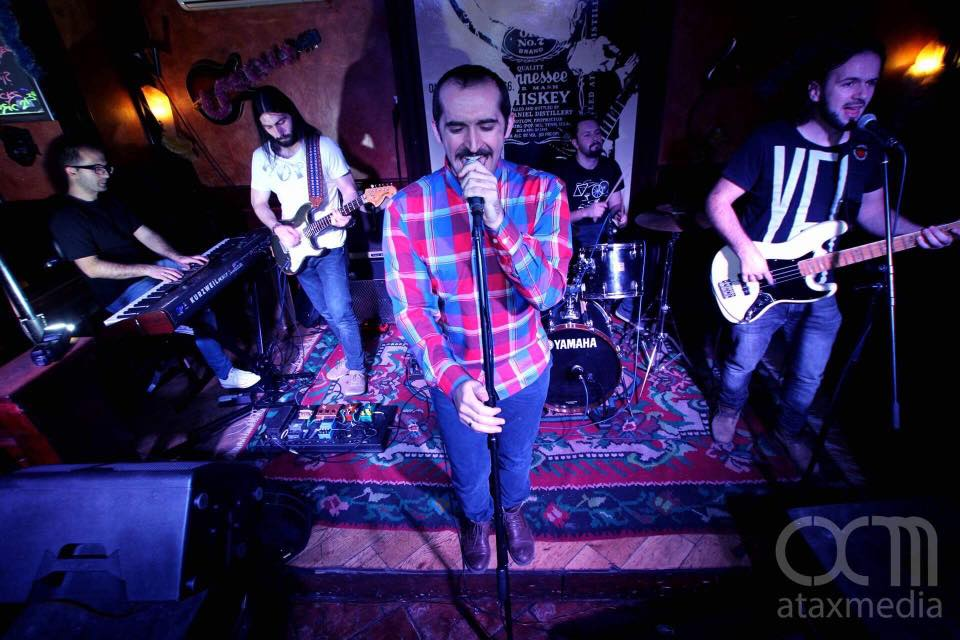 live at city pub